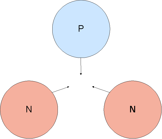 An interaction between three nucleons